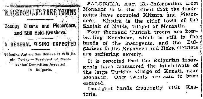 The events in Krushevo during Ilinden Uprising as seen by the American daily New York Times, Aug. 14, 1903. US newspapers - Ilinden Uprising Unknown correspondent